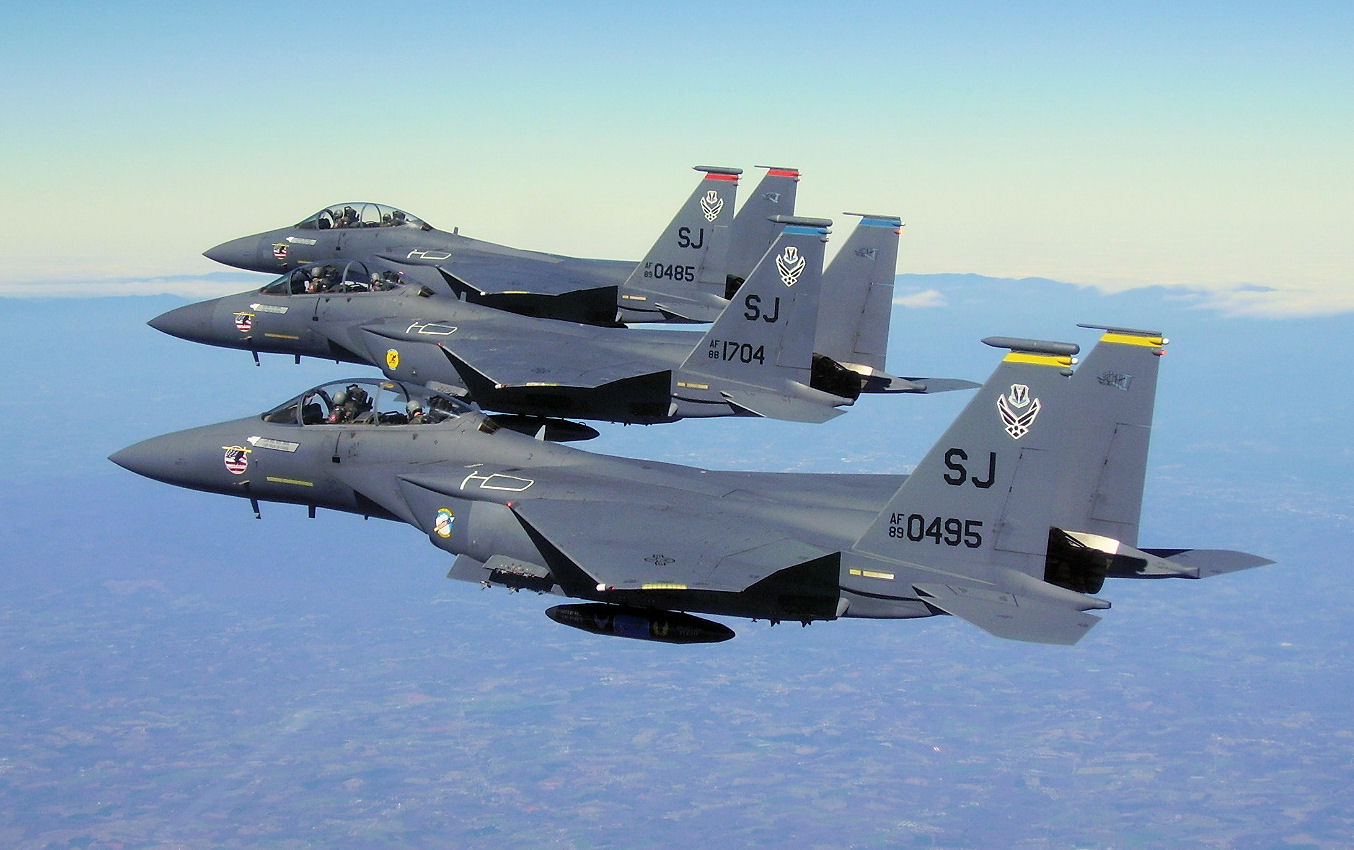 F-15Es of the USAF 4th Fighter Wing in formation